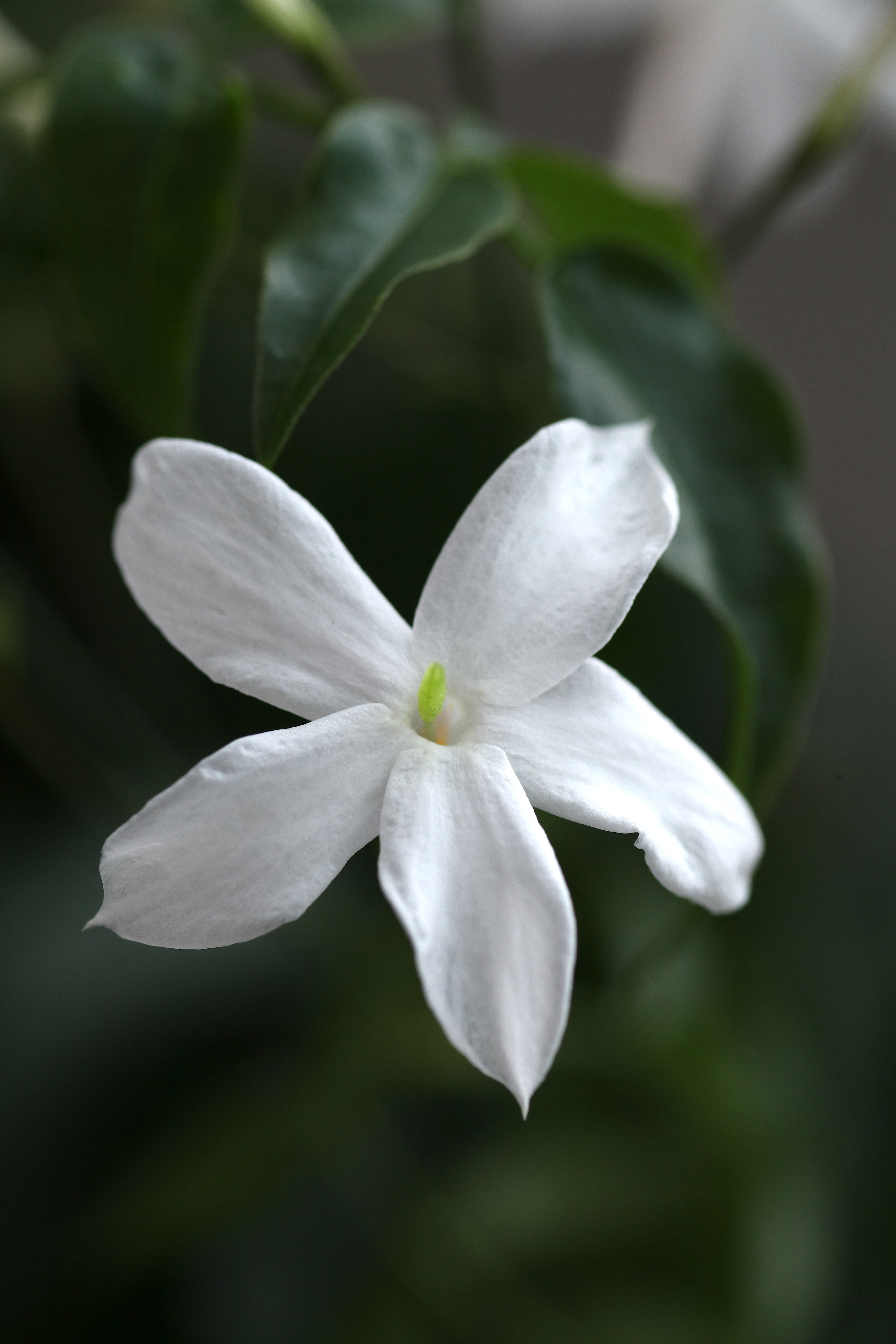 Flower close up of Jasminum officinale